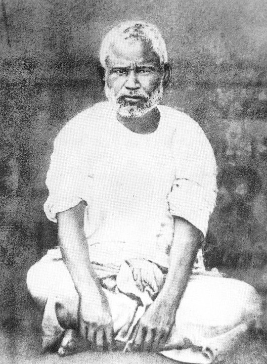 Photograph of Swami Adbhutananda, a direct disciple of Ramakrishna